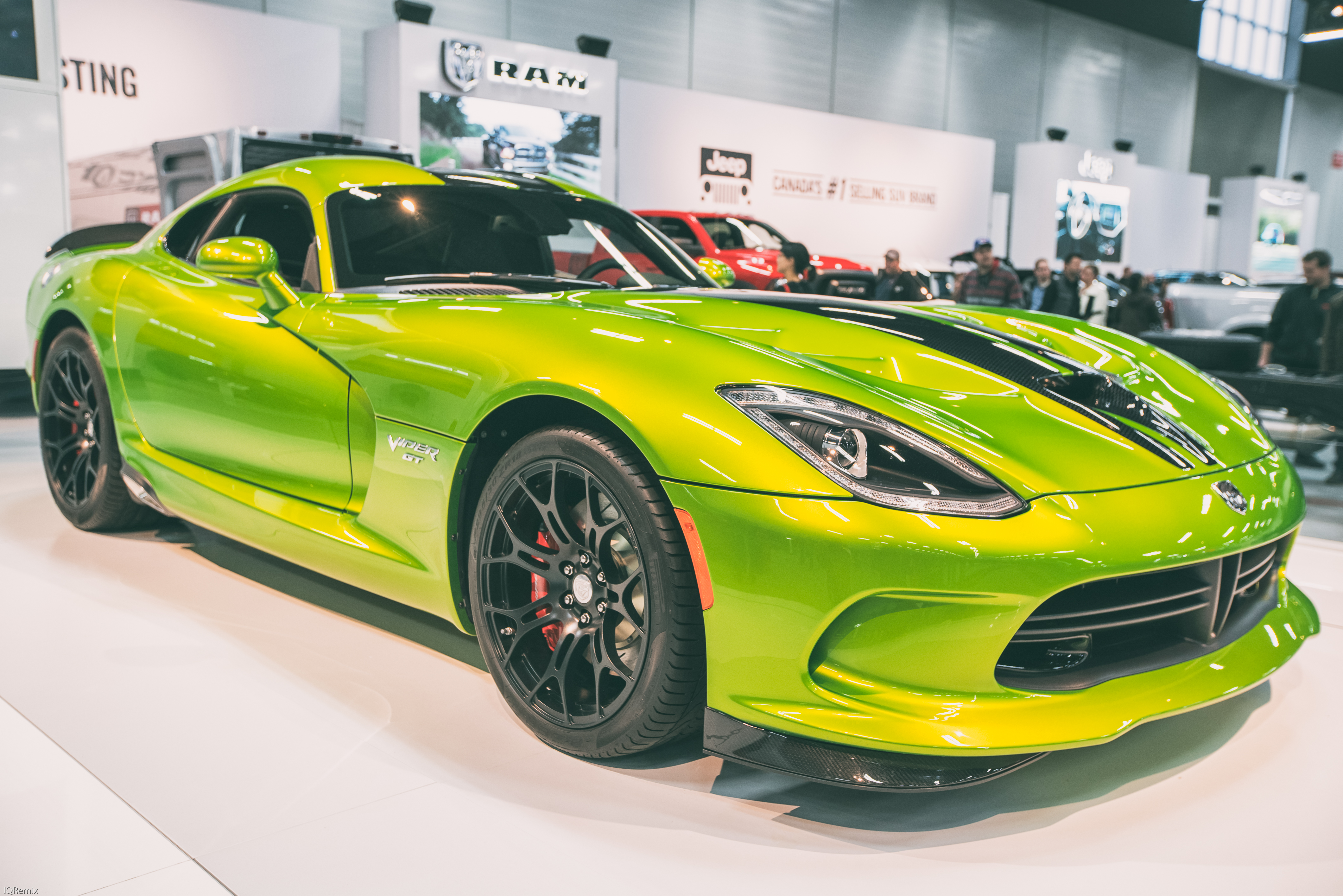 Edmonton Motor Show 2017